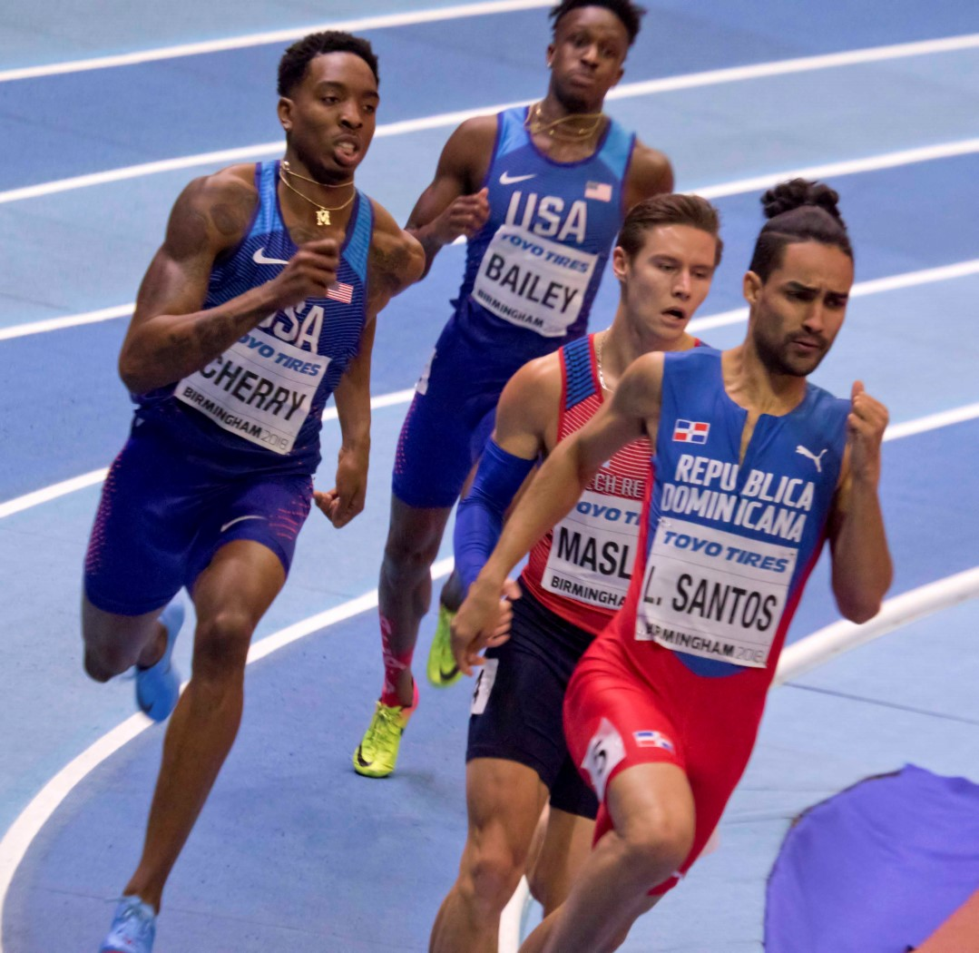 WK3B0266 400m finale heren